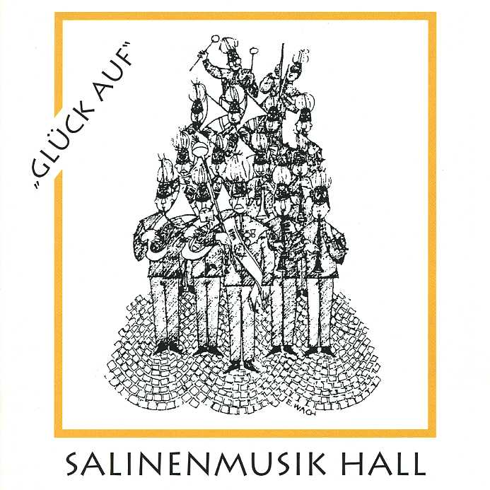 Zeichnung von Edit Wach / Neujahrsentschuldigungskarte